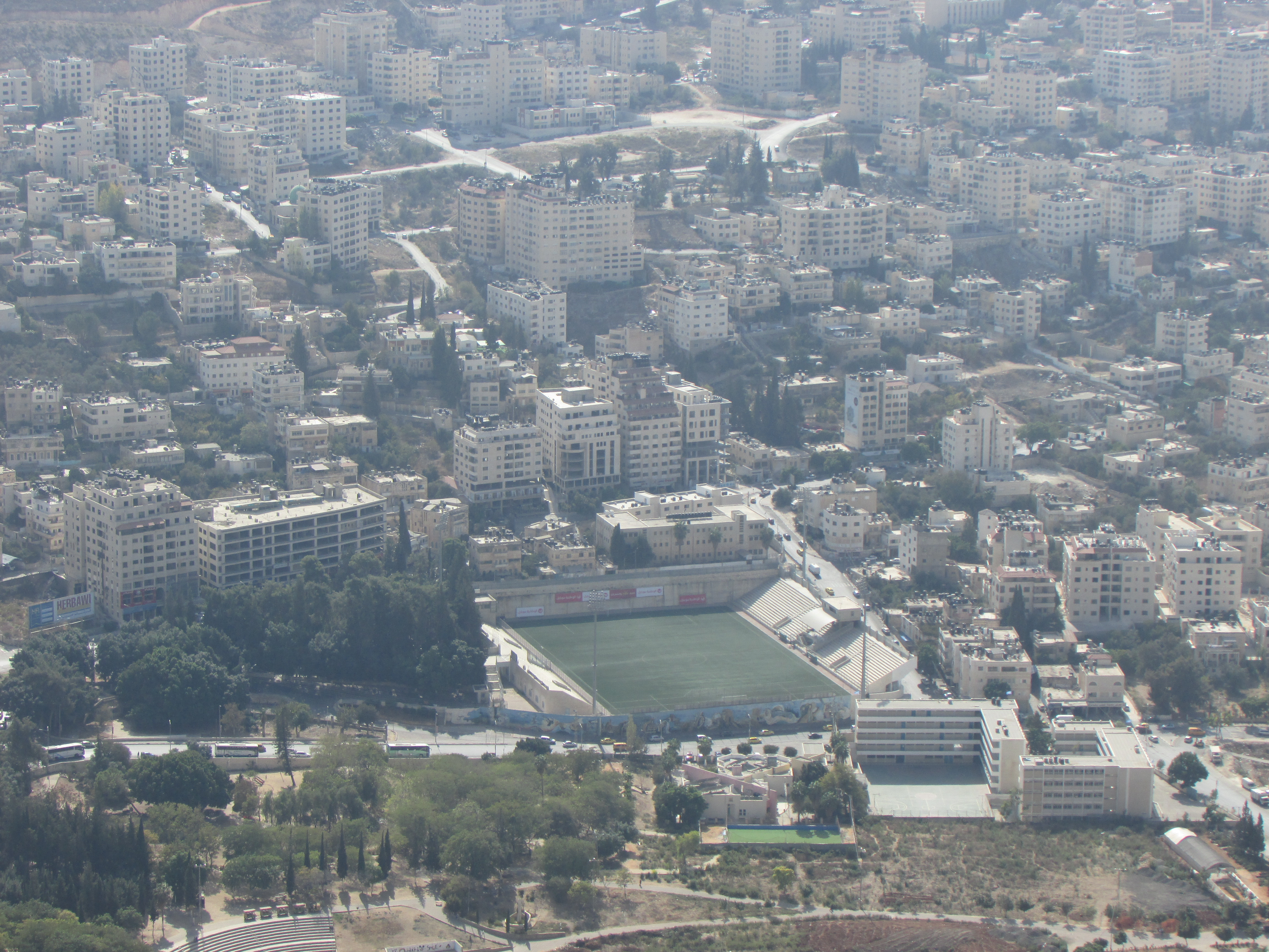 Nablus municipal stadium and surroundings.